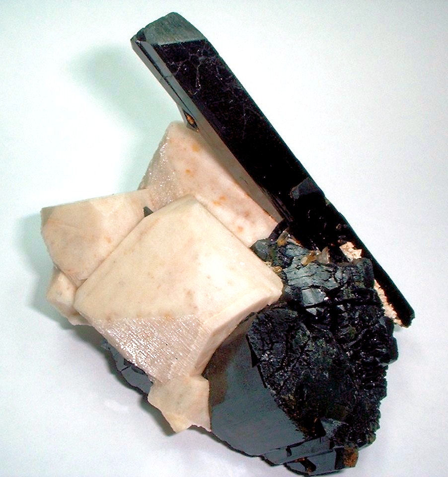 Aegirine with orthoclase, from Mount Malosa, Zomba District, Malawi (size: 85 mm x 83 mm)